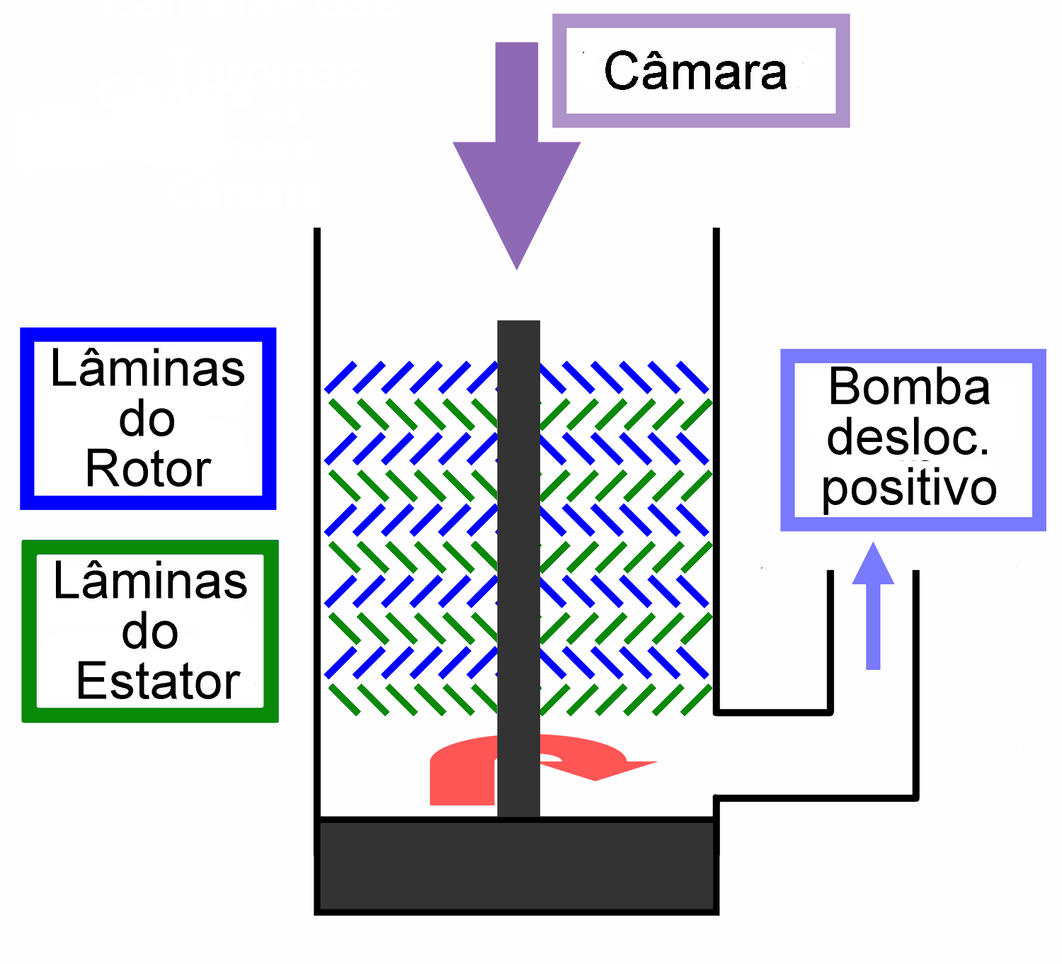 Schematic of a turbomolecular vacuum pump